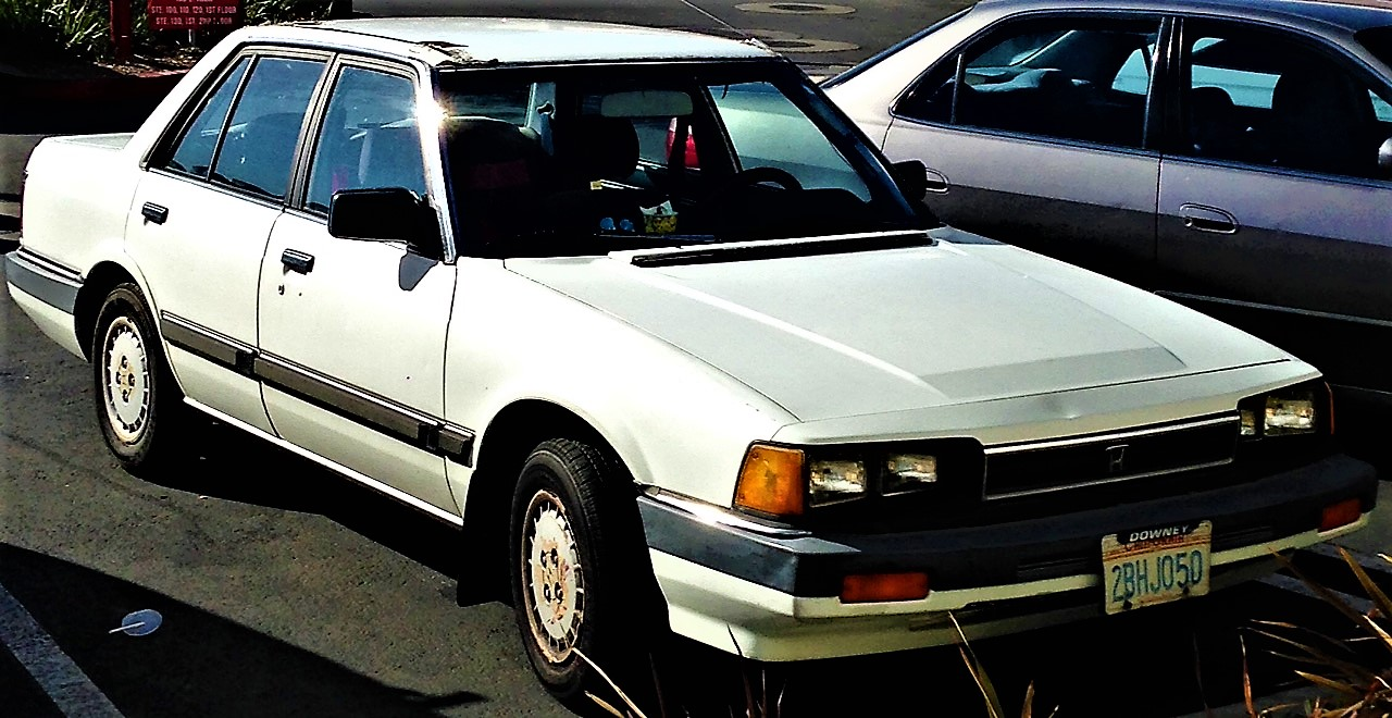 1984 Honda Accord Sedan